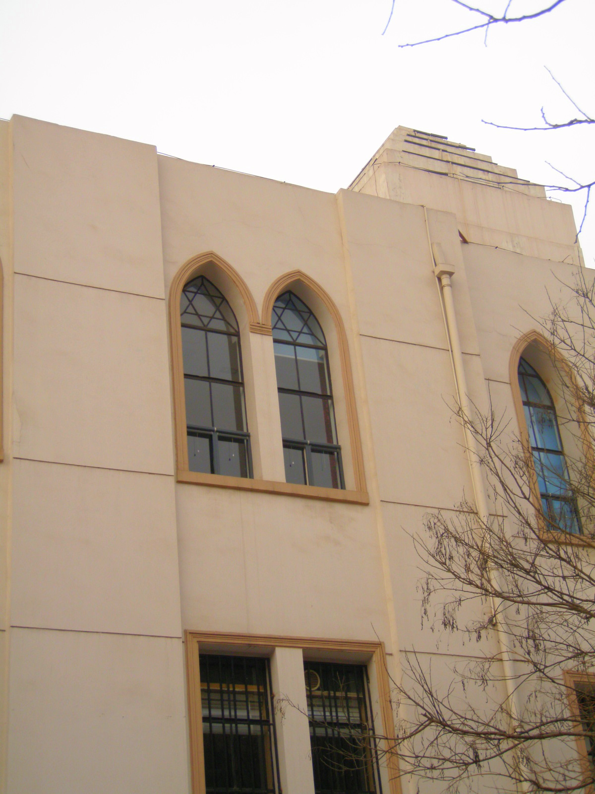 Tientsin synagogue, located on Zheng zhou Rd.( the cross road of Creek Road and Dublin Road ) 教堂侧面窗户亦有六芒星